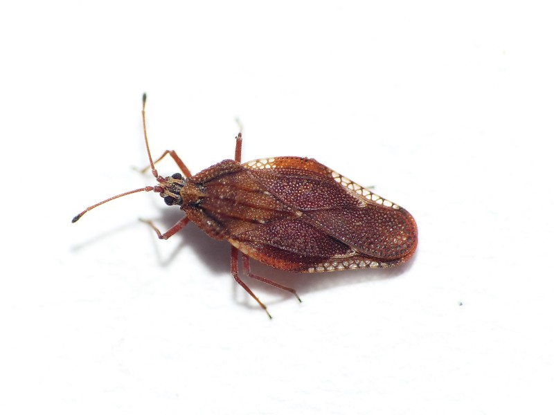 Physatocheila smreczynskii (Tingidae), Nijkerk - De Bunt, the Netherlands